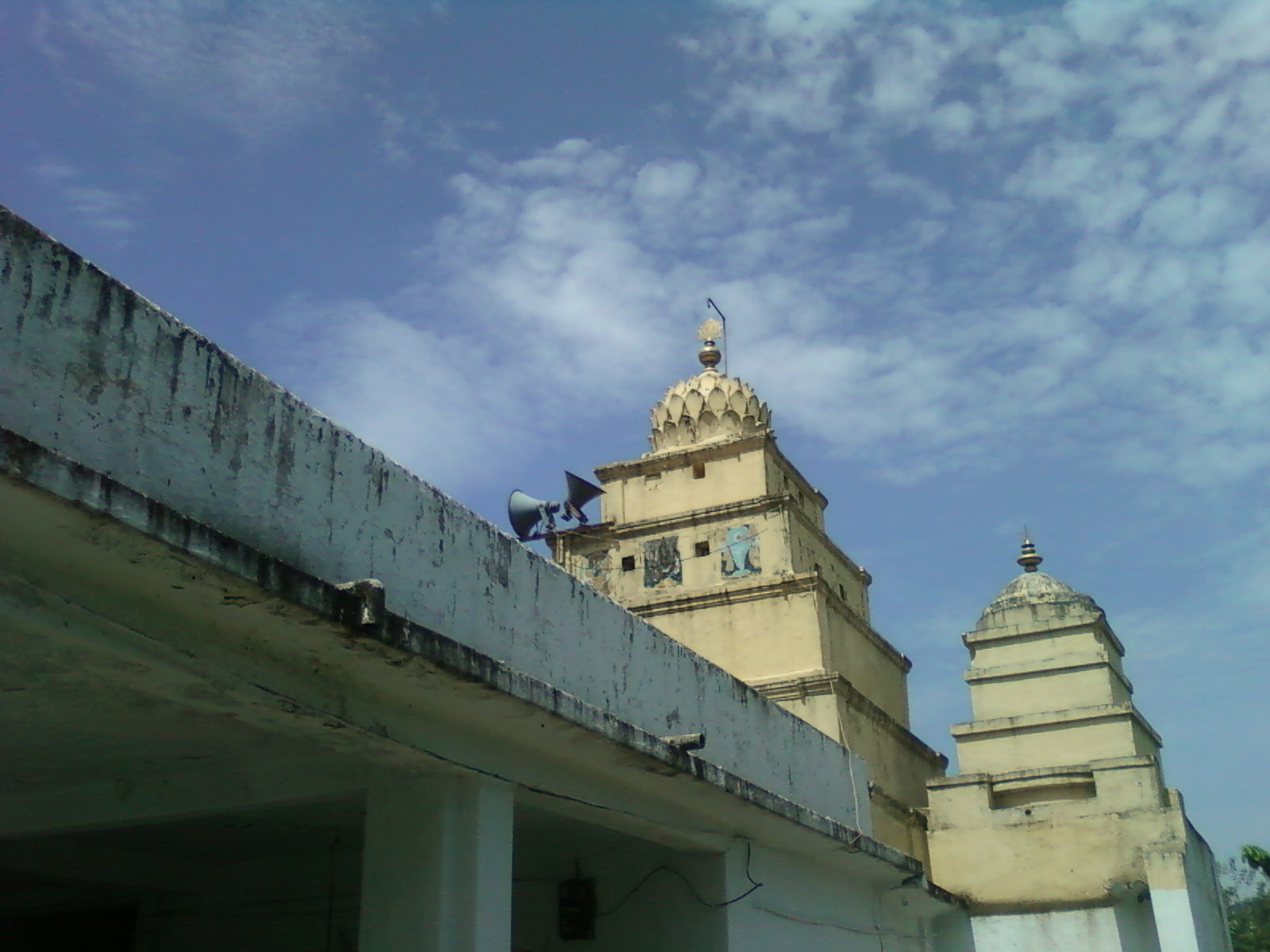 Lord Shiva Temple at Adavivaram, Simhachalam